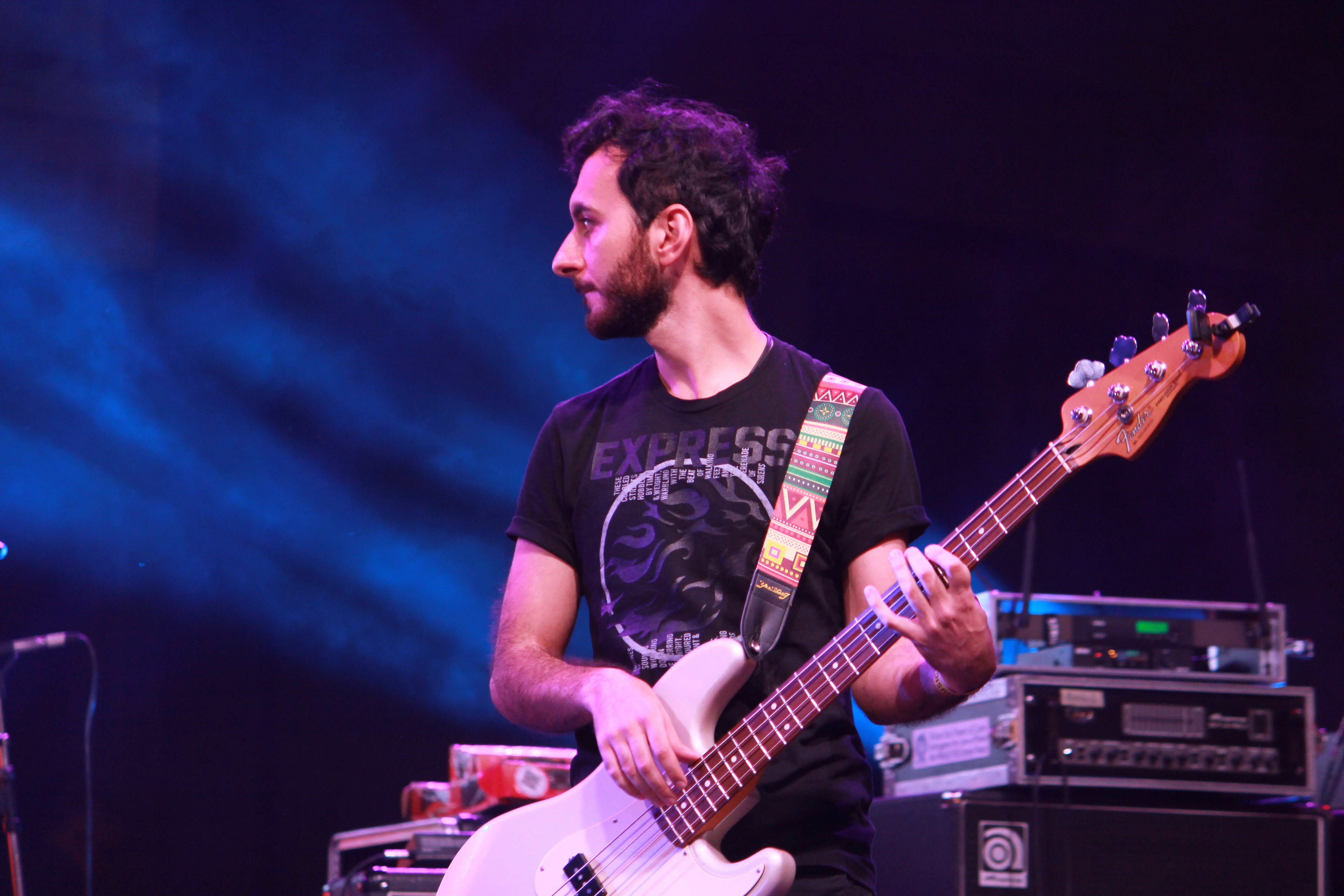 "Armenia in Rock" Festival at Freedom Square